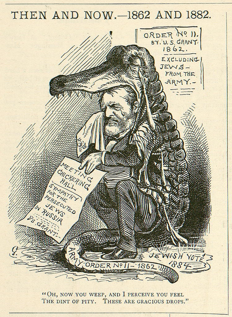 cartoon depicting Ulysses S Grant crying "crocodile tears" over the fate of the Jews in Russia in order to court Jewish votes in the upcoming 1884 presidential election